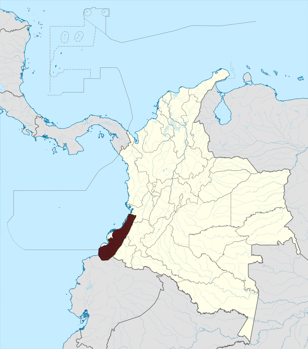 Historical territory of Tumaco-La Tolita culture